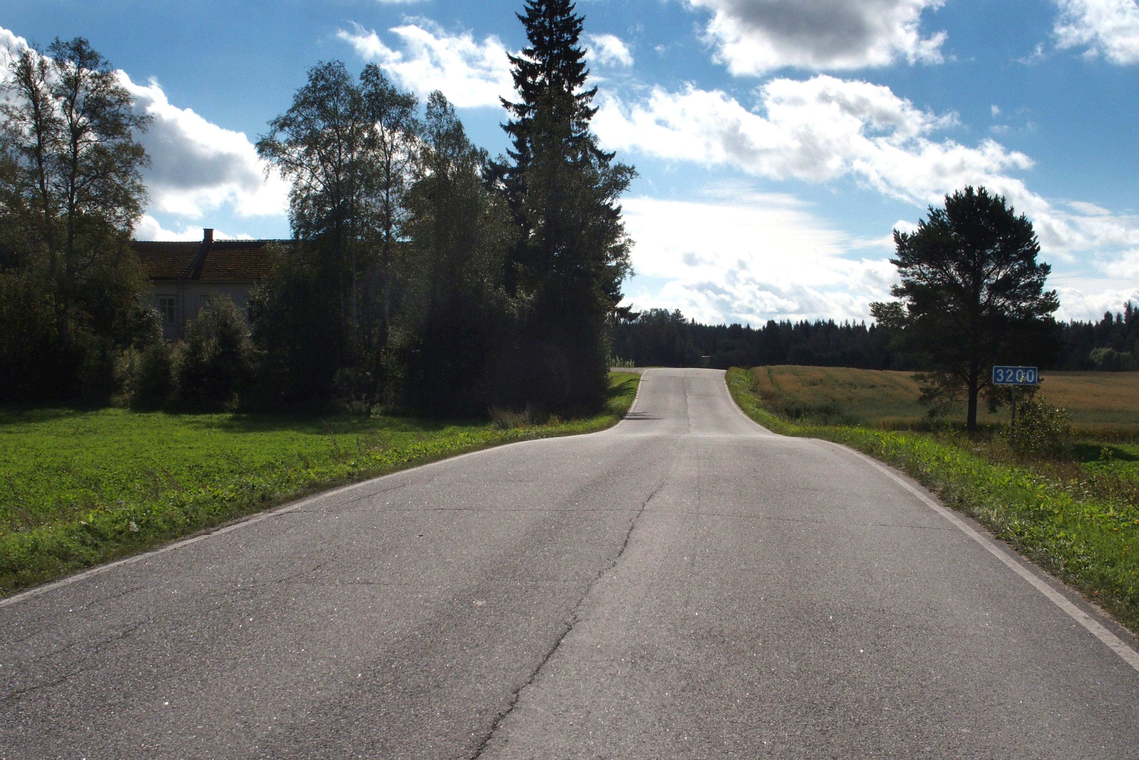 Yhdystie 3200 from Rautajärvi to Auttoinen in Vesijako village, Padasjoki.